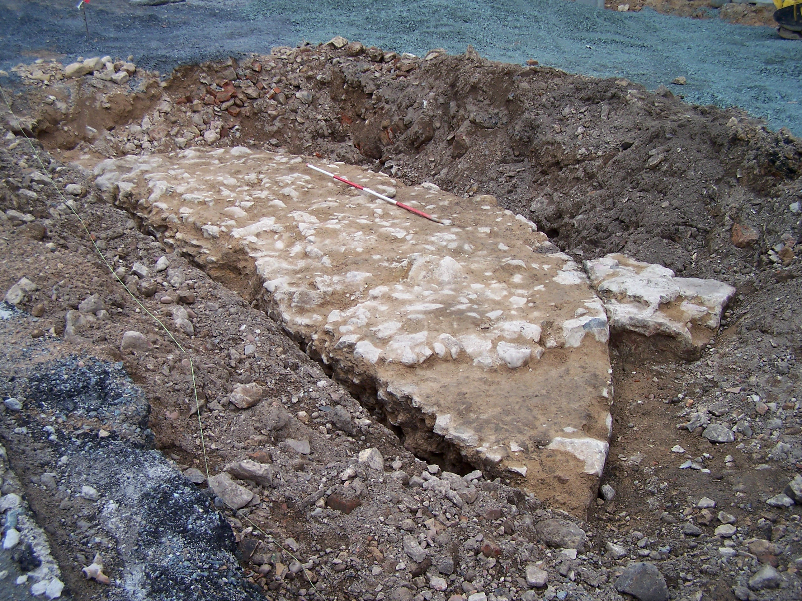 foundation wall of the Mönchsturm in Frankfurt-Innenstadt,Kurt-Schumacher-Straße